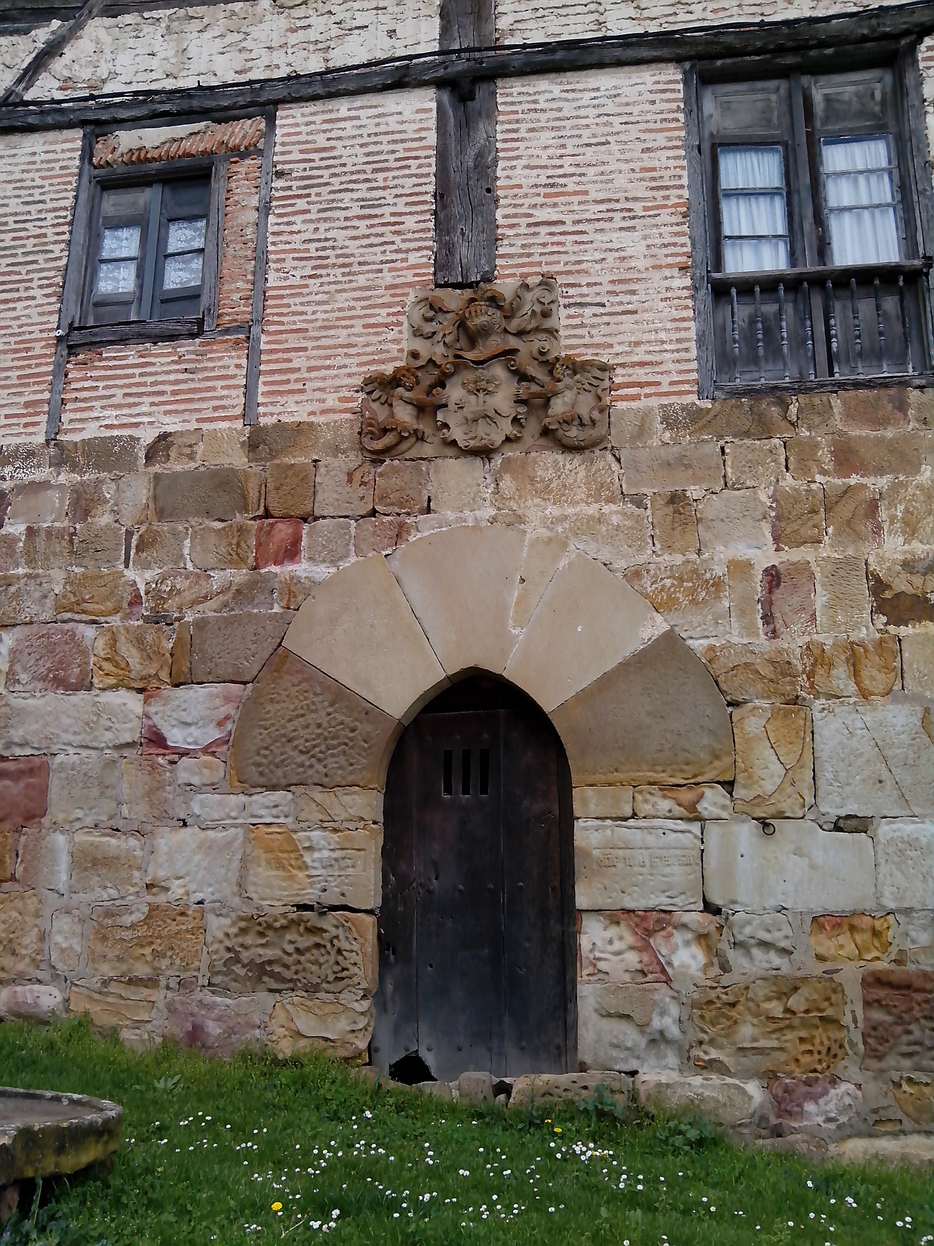 Carcel s. XVIII en Zerain (Guipúzcoa)